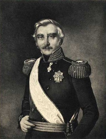 Ferdinand Christian Fürchtegott Bauditz (1778-1848), Danish Major General. Frederiksborg Museum.